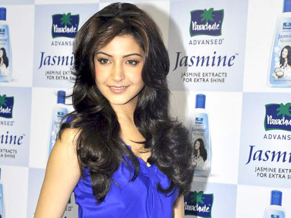 Anushka Sharma launches Parachute Jasmine Coconut Hair Oil